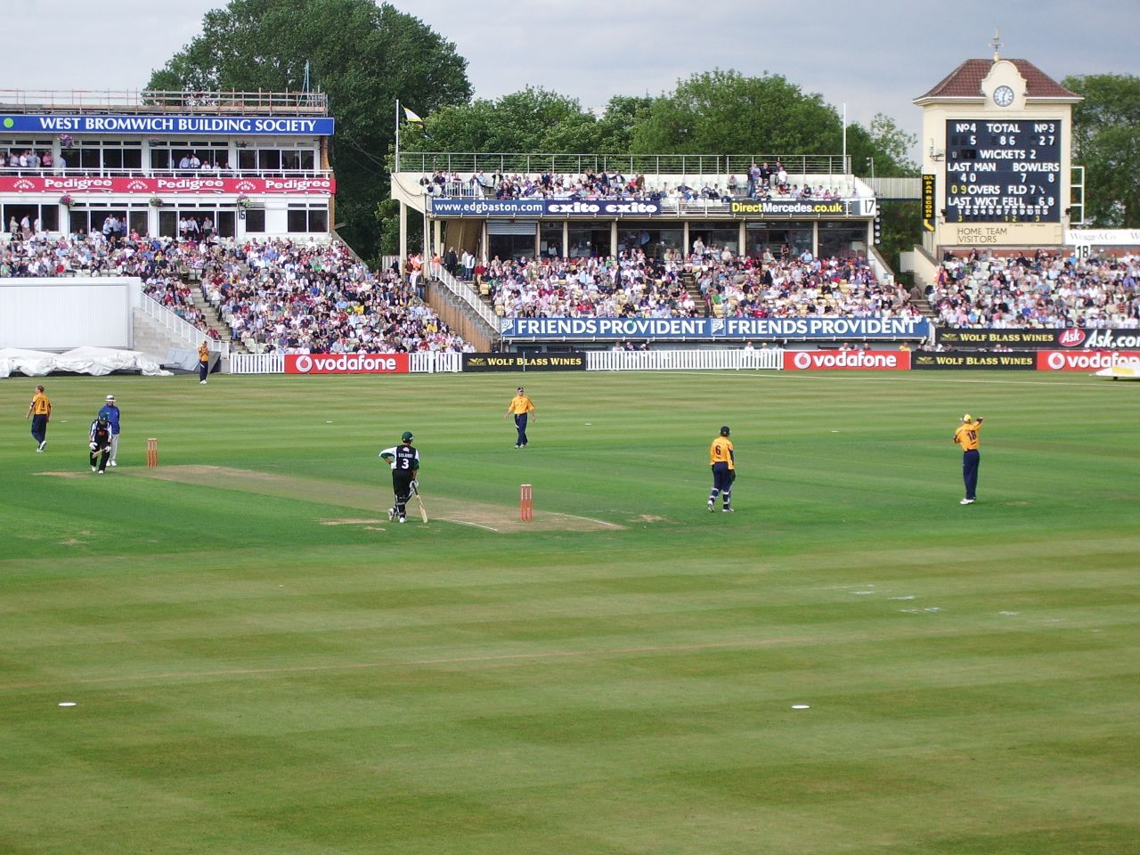 Twenty20 cricket: Warwickshire v Worcestershire